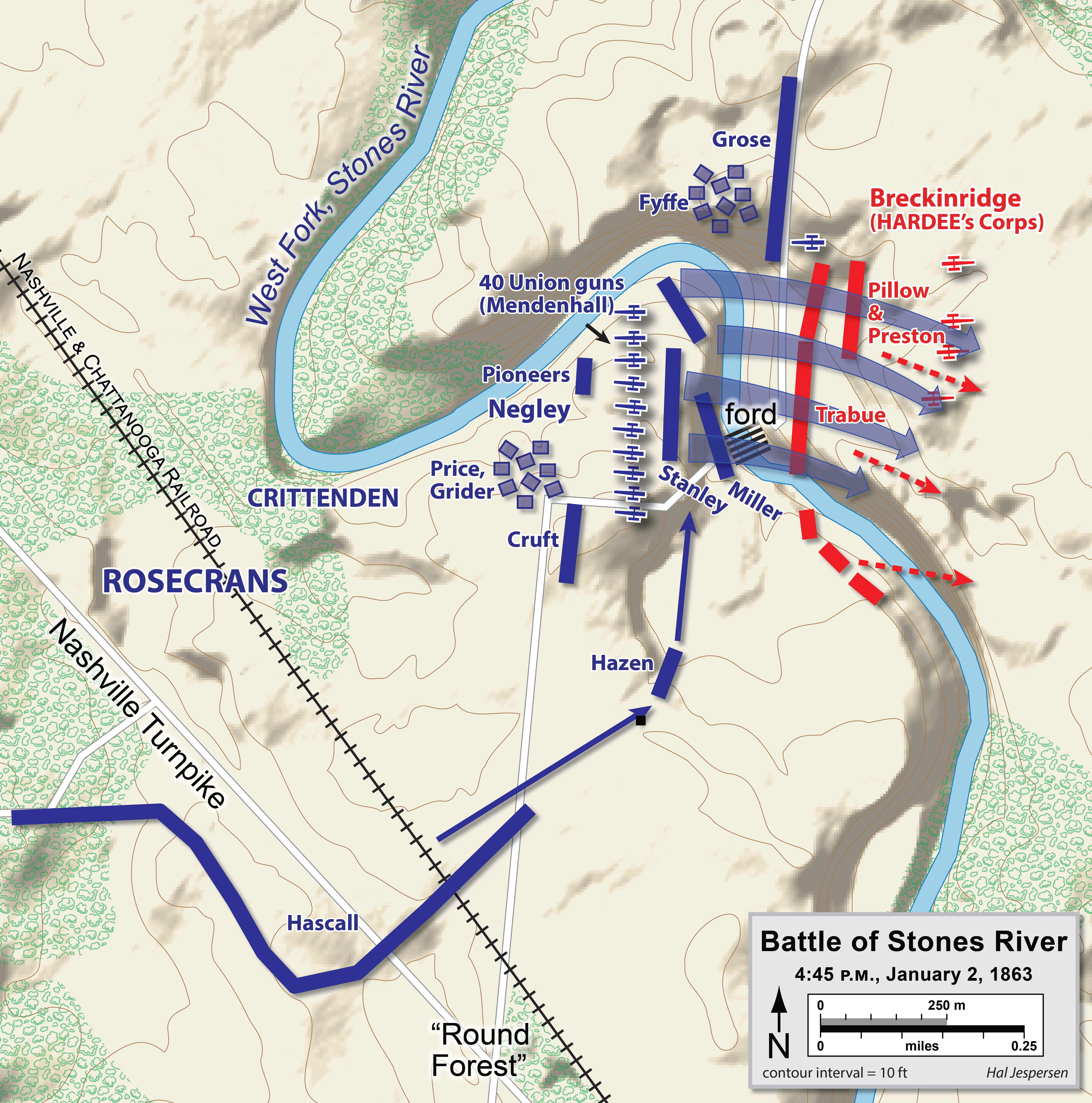 Map of the Battle of Stones River of the American Civil War. Drawn in Adobe Illustrator CS6 by Hal Jespersen. Graphic source file is available at